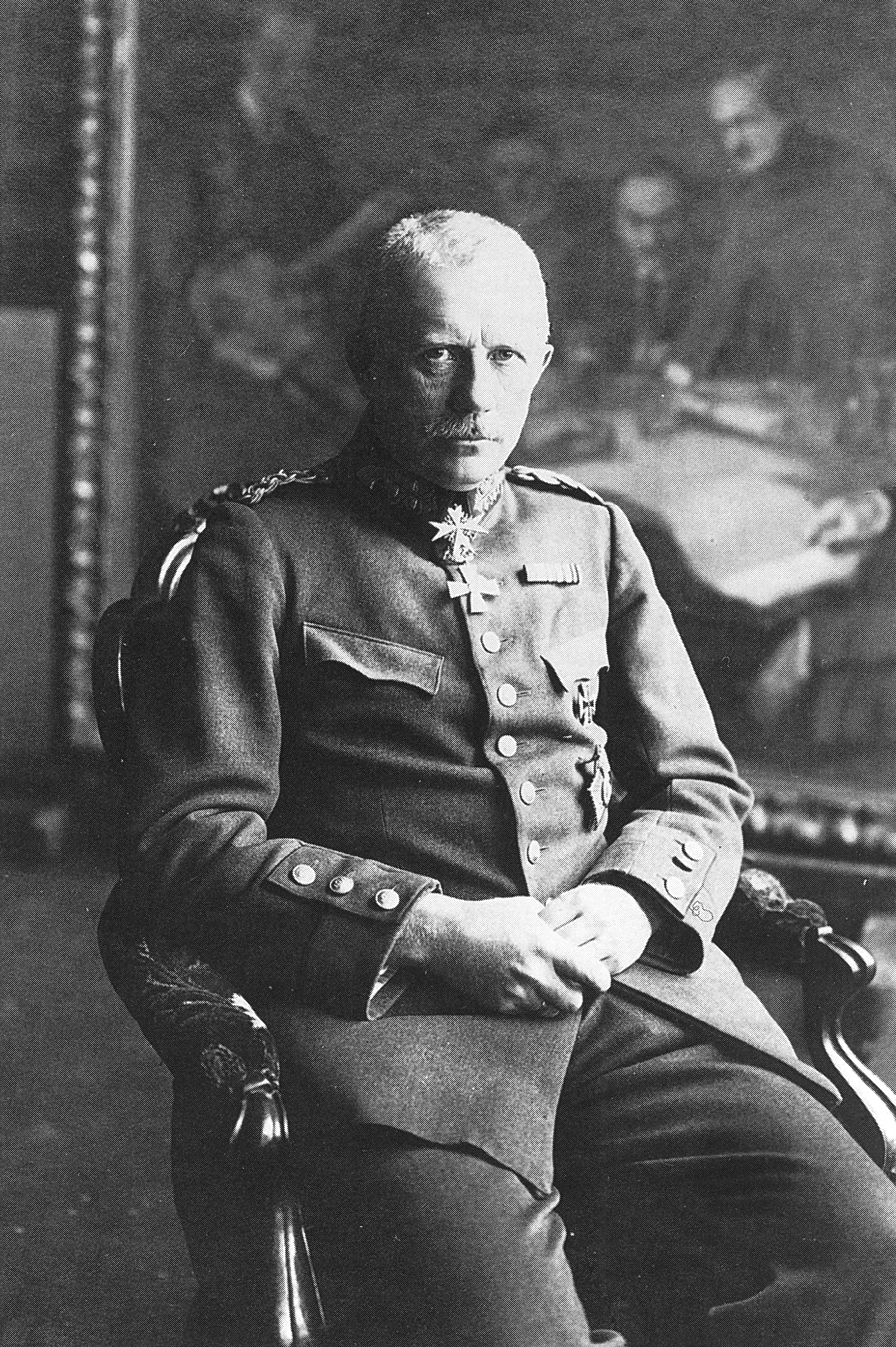 General Rüdiger von der Goltz.